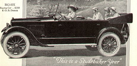 Studebaker "Big Six Touring Car" Automobile, scanned from an advertisement in a 1920 National Geographic magazine in my collection.